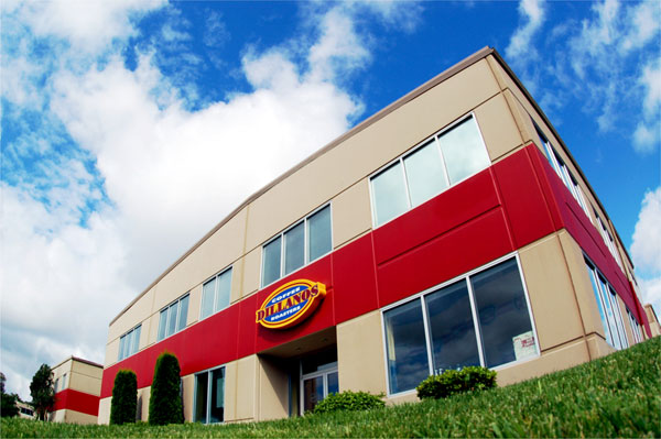 Exterior shot of Dillanos Coffee Roasters roasting facility in Sumner, Washington